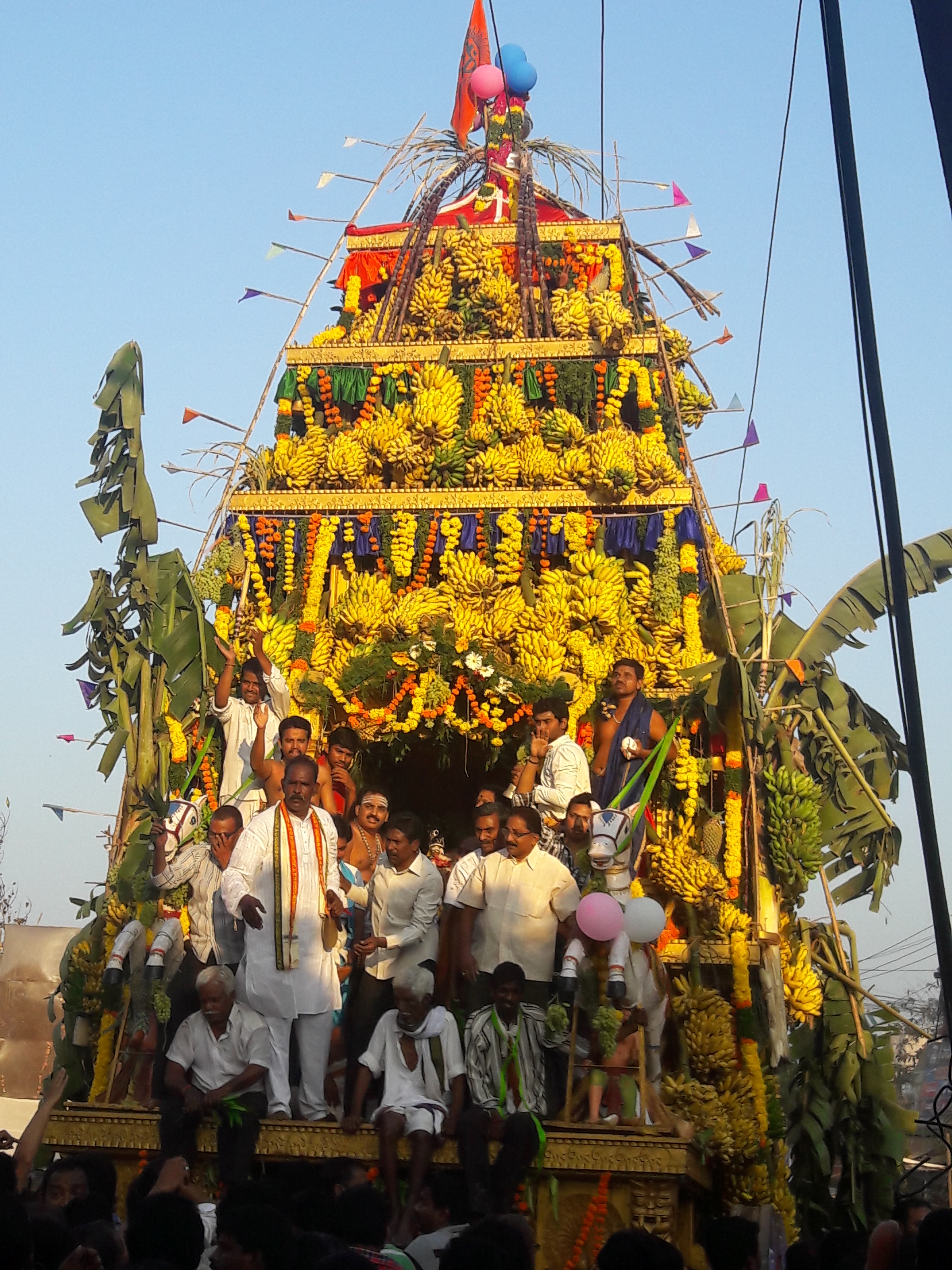 The temple car of Somarama temple located in Bhimavaram, west godavari district, Andhra Pradesh, India. It is decorated with banana.